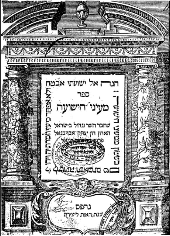 Title page of Isaac Ben-Yehuda Abrabanel: Ma'yanei ha-Yeshu'ah.